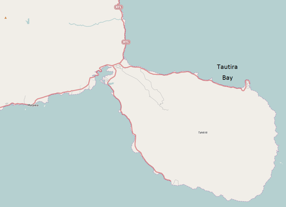 Map showing Tautira Bay, Tahiti